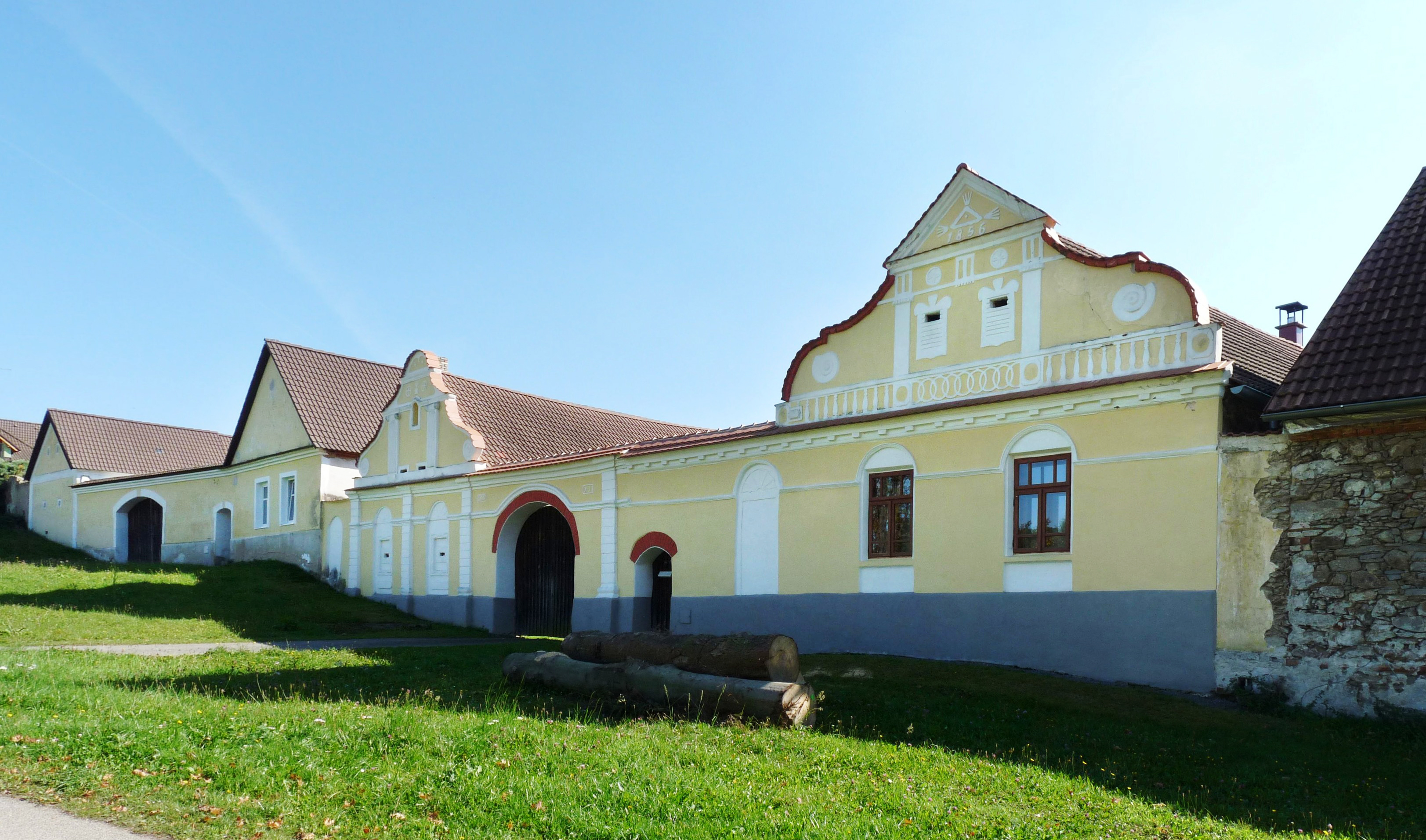 House No 13 in the village of Kočín, České Budějovice District, South Bohemian Region, Czech Republic, cultural heritage monument.